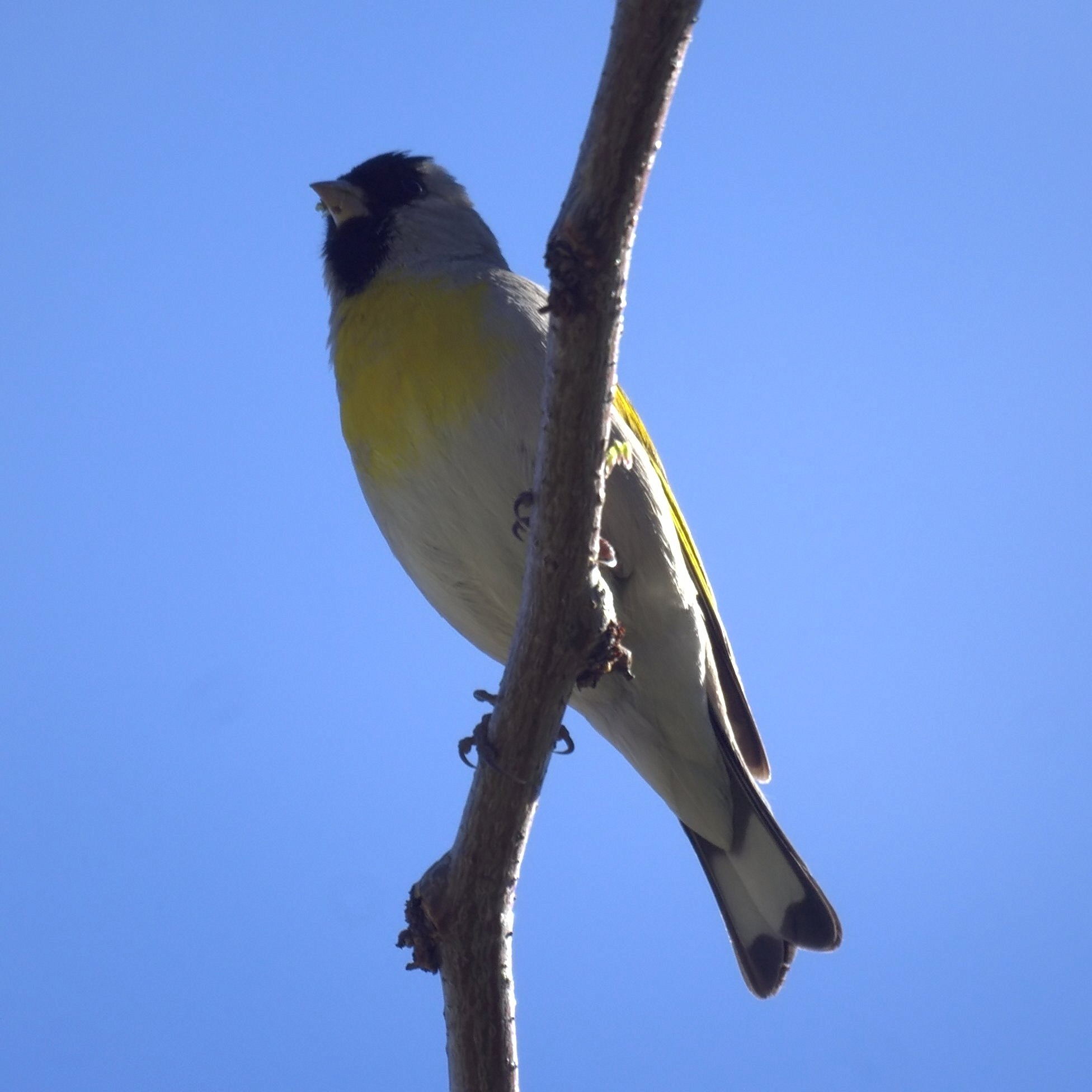 Lawrence's Goldfinch Spinus lawrencei, Redlands, California